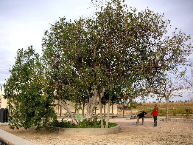 Large size oleander shrub at he centre of Balada village, Montsià. This bush gives its name to the village This is a a photo of a protected or outstanding tree in Catalonia, Spain, with id: MA-22.902.01